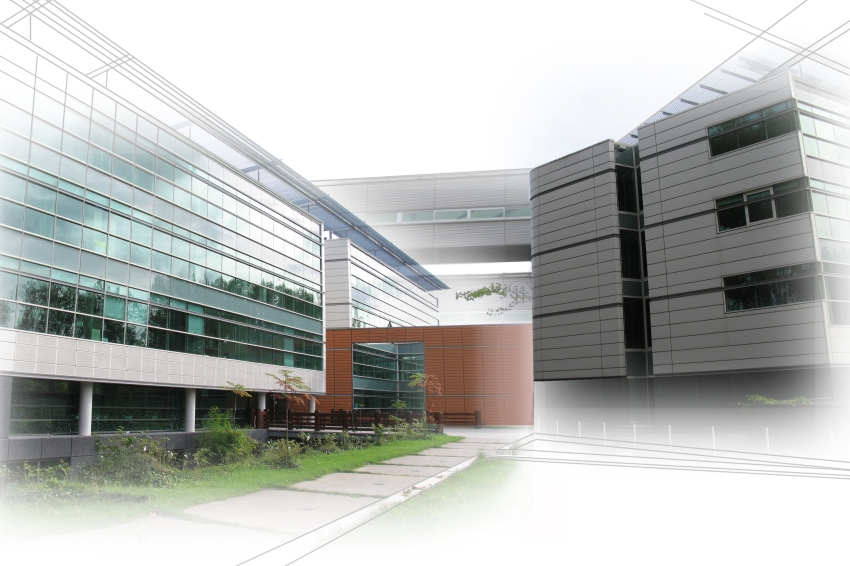 Picture of Polytech'Lille (École Polytechnique de l'Université de Lille) Which is especially the place of establishment and development of the demonstration project SunRise Smart City